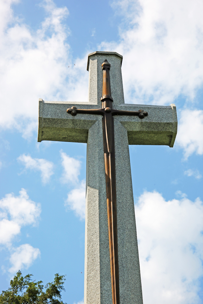 Closeup of the face of the Canadian Cross of Sacrifice in Section 46 of Arlington National Cemetery in Arlington, Virginia, in the United States. In 1925, MacKenzie King, Prime Minister of Canada, proposed that Canada donate memorial to the cemetery to honor the large number of Americans who died while in the the service of the Canadian Armed Forces during World War I. President Calvin Coolidge approved the memorial on June 12, 1925. British architect Sir Reginald Bloomfield designed the memorial, which was dedicated on November 11, 1927. A 24-foot-high grey granite cross stands on a hexagonal base. A giant bronze sword is affixed to the front of the cross. An inscription honors those Americans who served Canada during World War I. Additional inscriptions honoring Americans who served in the Canadian Armed Forces in World War II and the Korean War were added later.